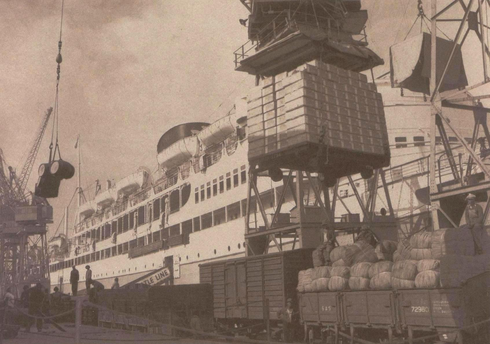 Elgin Apple exports. Loaded on Union Castle liner in Table Bay. Cape Town.